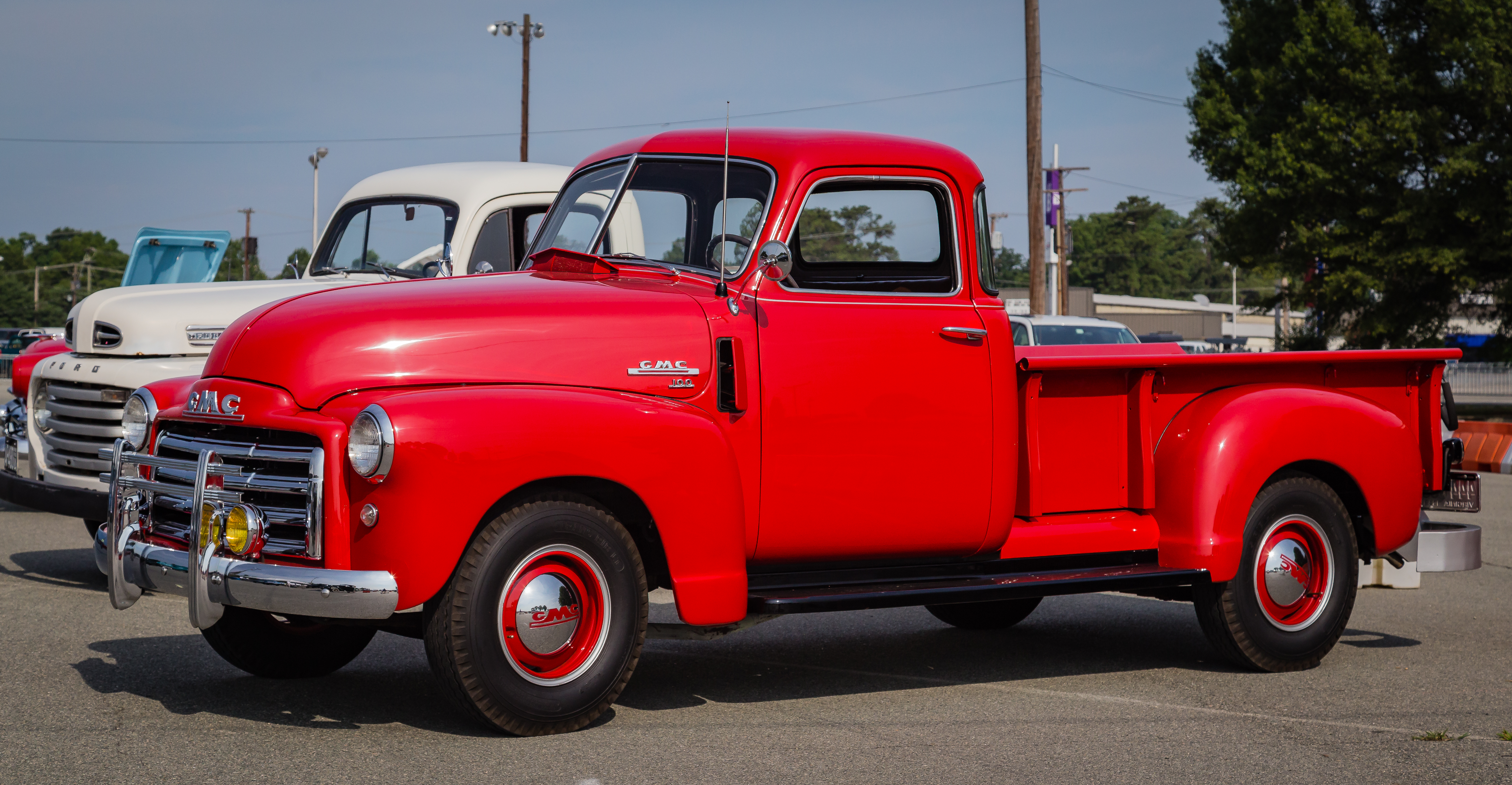 The 46th Annual Richmond AACA Car Show and Swap Meet